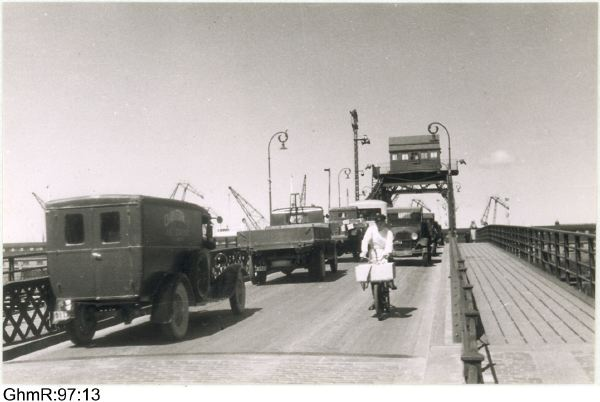 Bridge Hisingsbron, Gothenburg, Sweden. 1934.